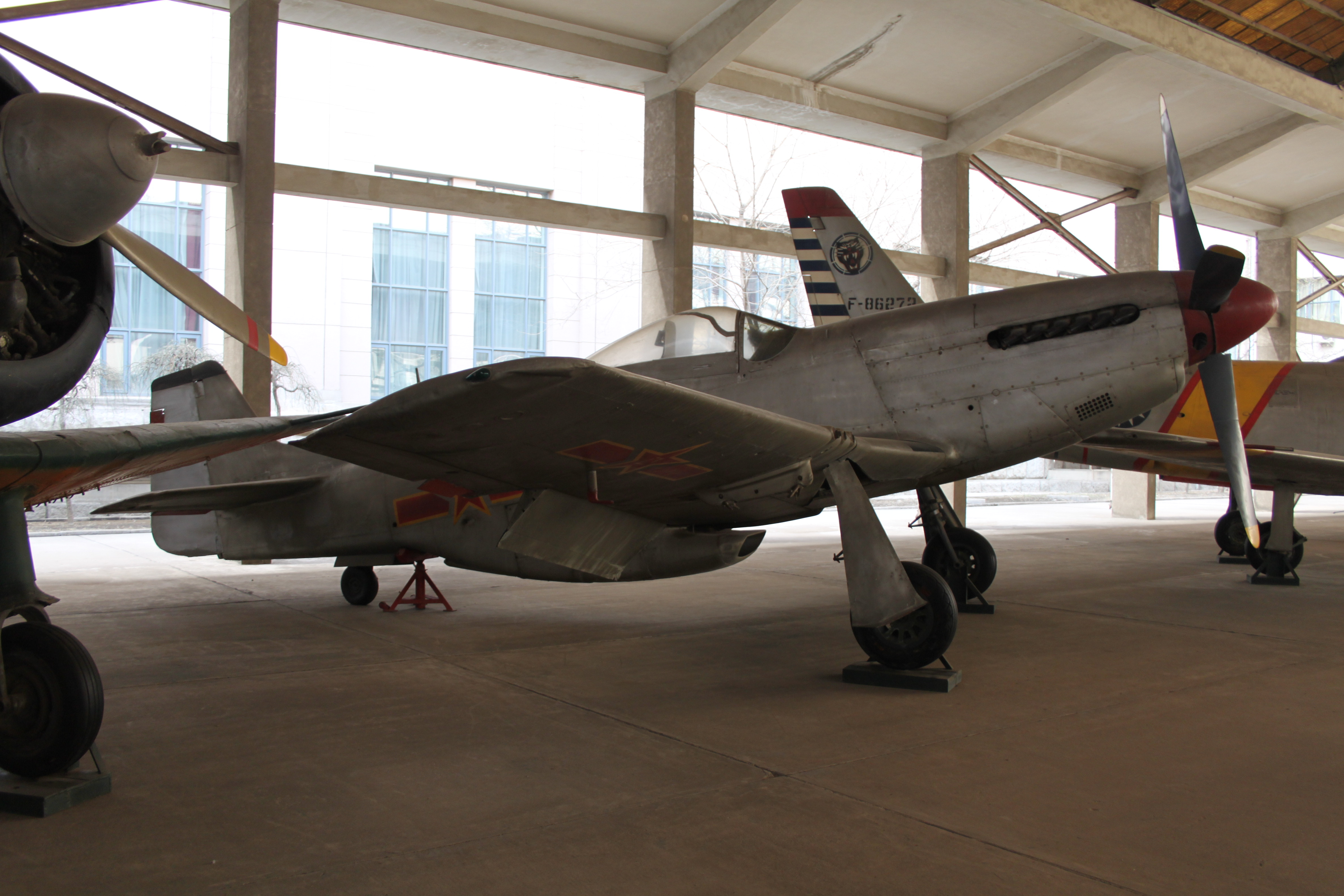 Military Museum: Modern Weapons. Complete indexed photo collection at .